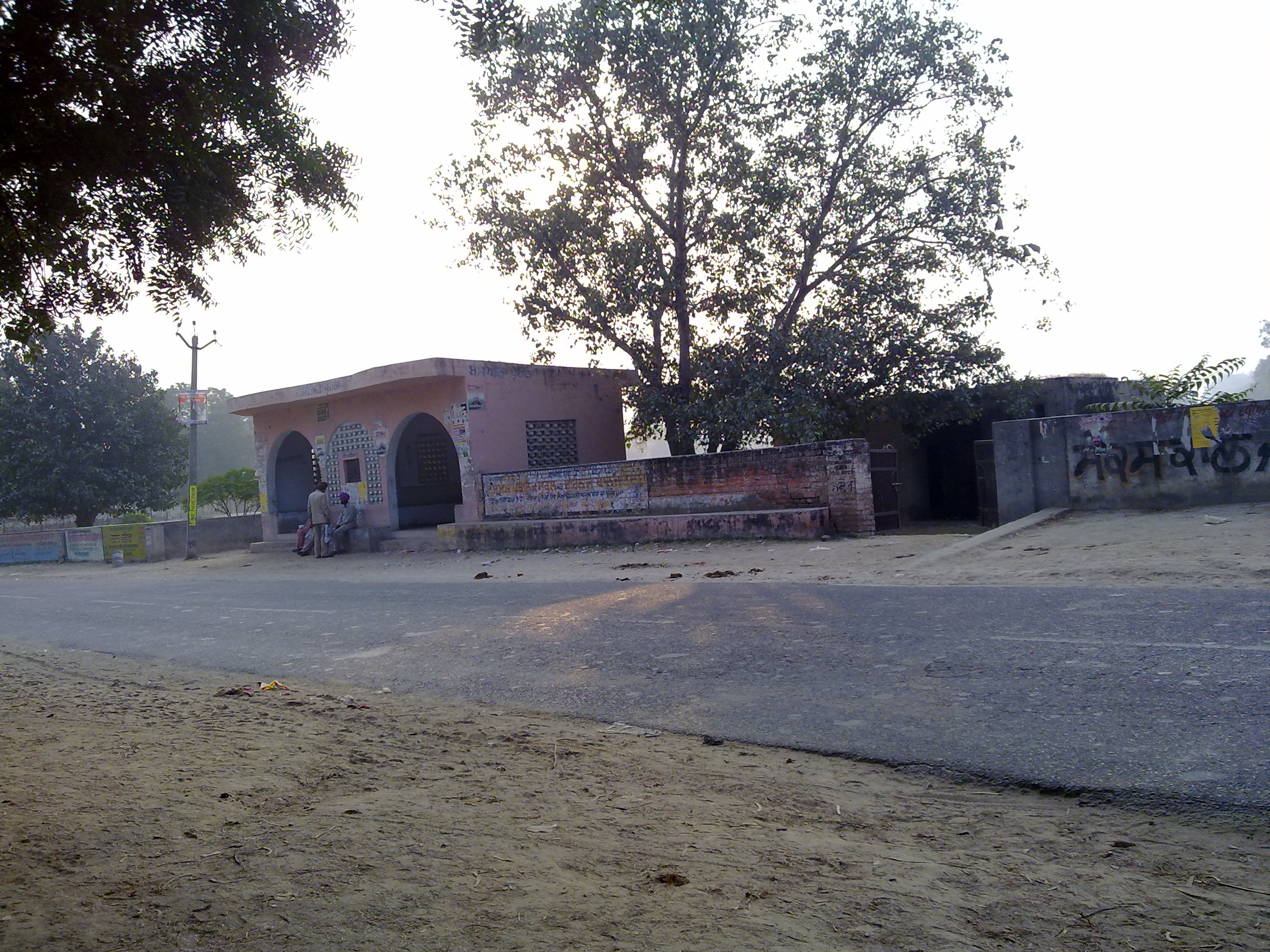 Bus Stop Poohla